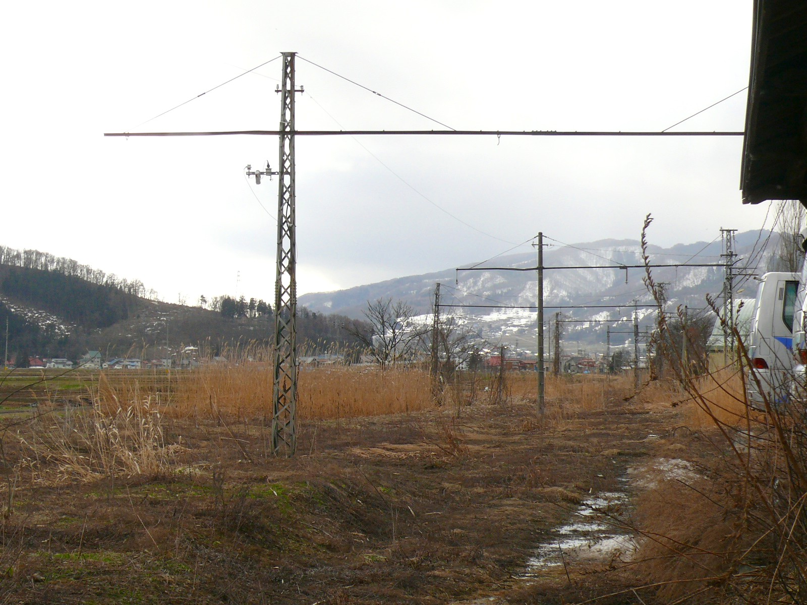 Nagano Electric Railway Kijima station premises(It is being abolished now.).